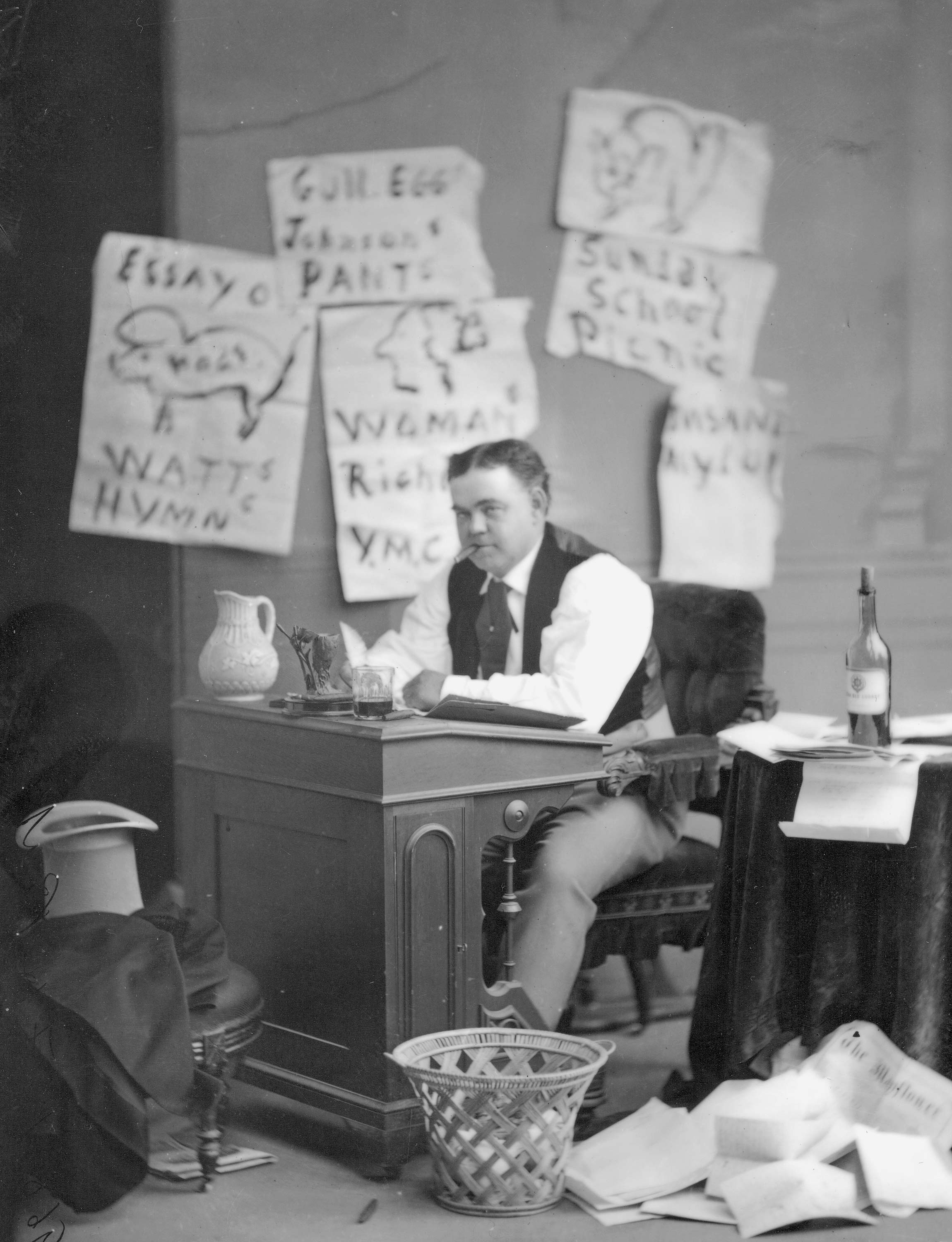 F.H. Baker, Editor of the Mayflower, ca. 1878. The Acadian Recorder for 24 October 1885 gave a length biography of Baker on the occasion of his death, noting that he: "was perhaps more generally known as he appeared on our streets several years ago, than any other resident, because he was pointed-out as 'Baker, of the Mayflower', and more people read that journal while it lasted than ever acknowledged to doing so. He came to Nova Scotia some twenty years ago, to engage in lobster-canning, and had large factories on the coast, paying out much money in wages, and engaging in extensive operations in the line of business in question. During this time he became the proprietor of a weekly journal called the 'Mayflower', which had been started for literary purposes in this city, and made it a personal organ. It to a large extent ventilated any scandals that were being discussed or whispered in public, and held up sundry individuals to ridicule because of peculiarities. He was a great foe to snobbery and 'exquisite'ness, and with a most copious pen slashed right and left, often in the most impassioned language. At one time the paper had a great circulation, extending all over the Province and even abroad. Everyone who decried it seemed to have 'one in their pocket' which they would show to their friends, and expatiate on the turpitude of the writer of certain articles therein."